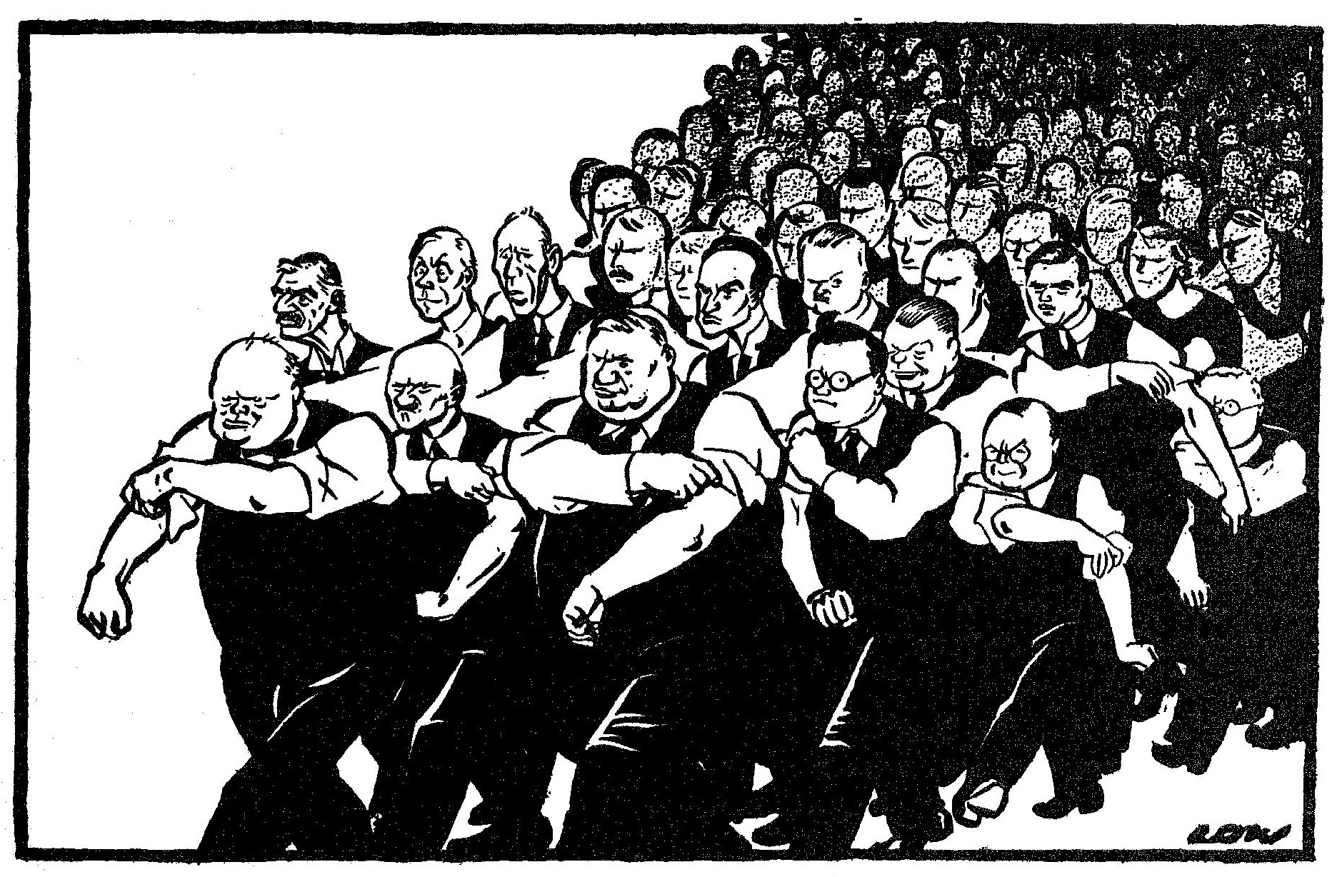 Cartoon showing on the first row Winston Churchill, Clement Attlee, Ernest Bevin and Herbert Morrison. Reproduced in Low's autobiography.